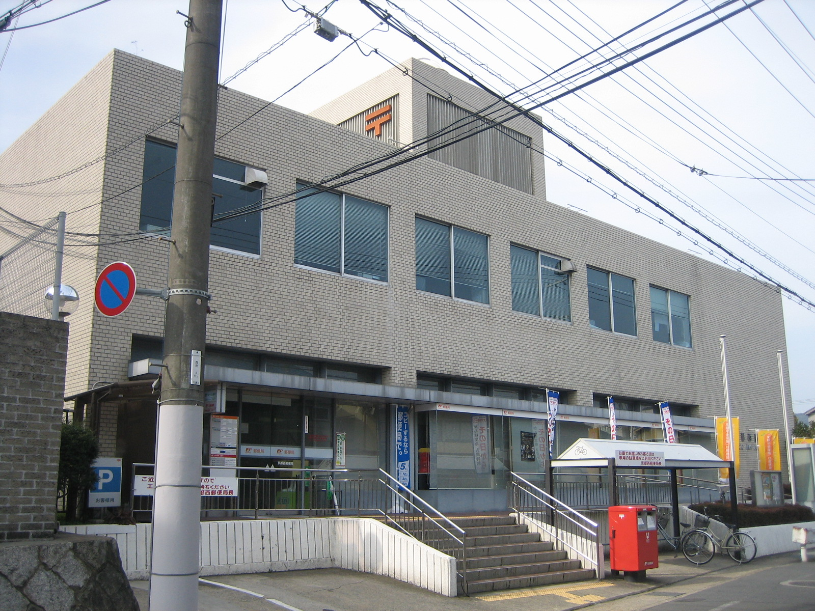 Kyoto-nishi post office in Kyoto, Japan